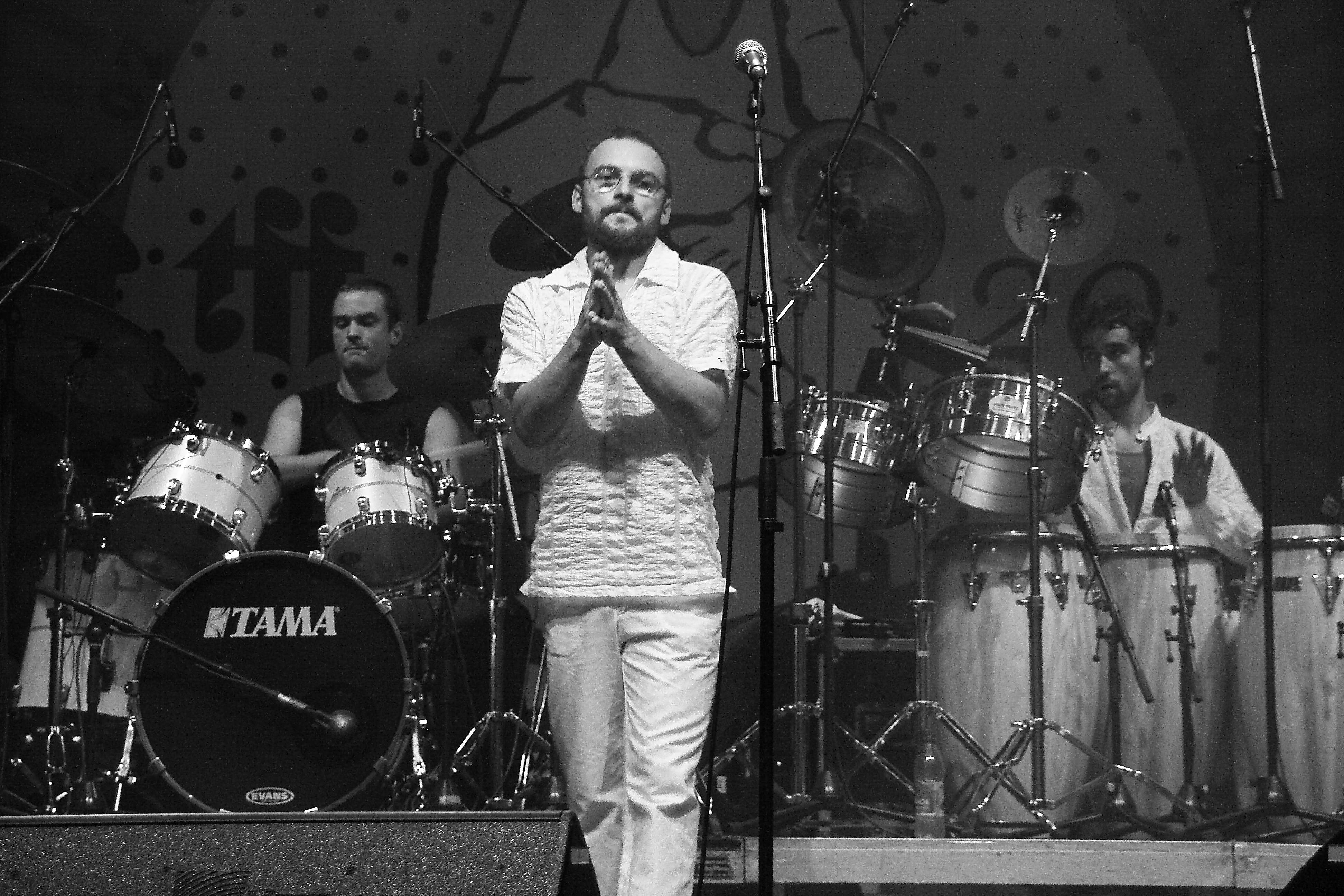 Eric Menneteau performing with Badume´s Band at TFF.Rudolstadt 2010